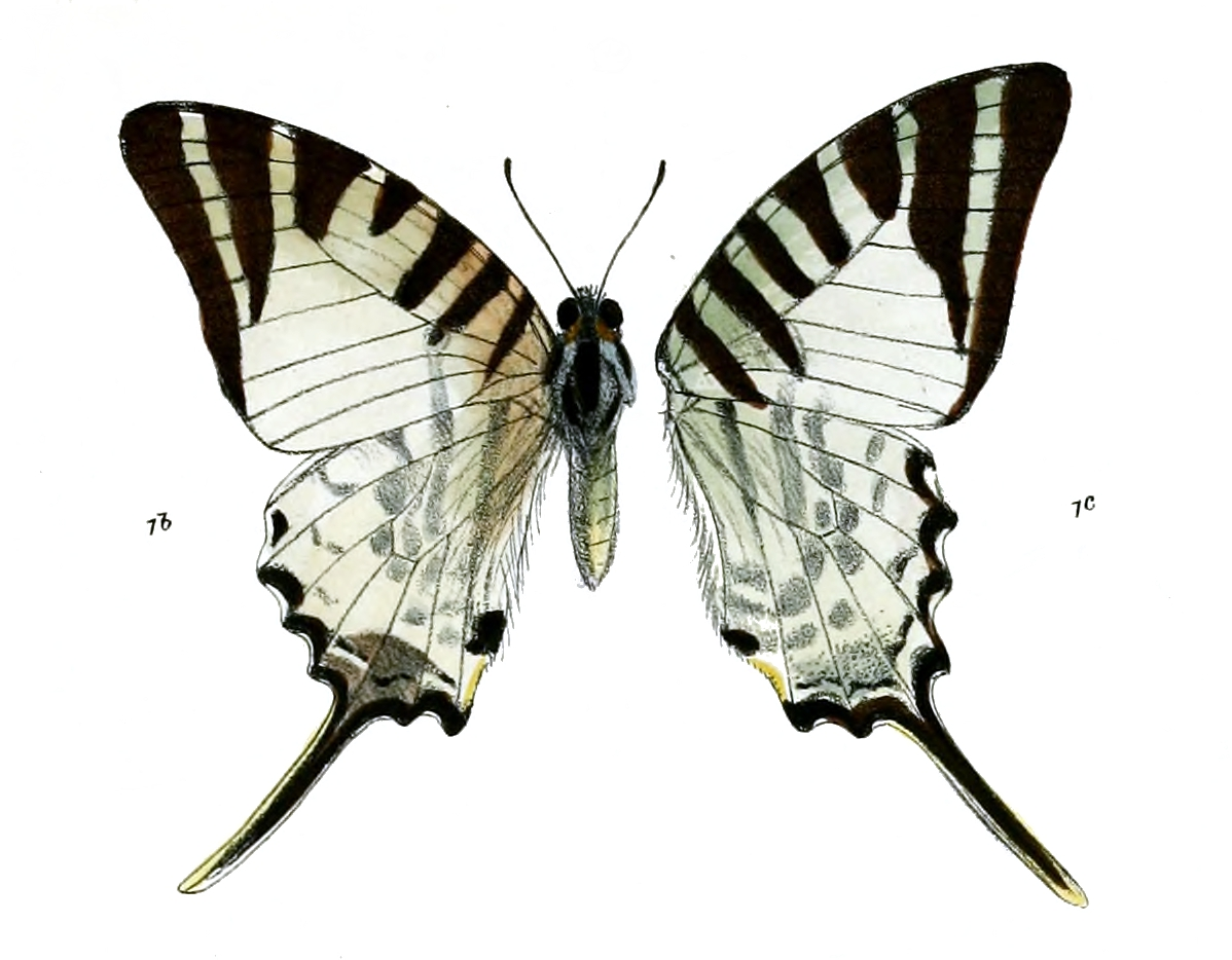 Graphium antiphates alcibiades (male)